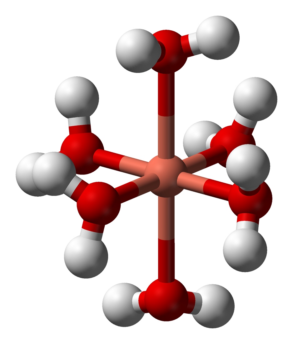 Ball-and-stick model of the hexaaquacopper(II) complex, [Cu(H2O)6]2+. Image generated in Accelrys DS Visualizer.